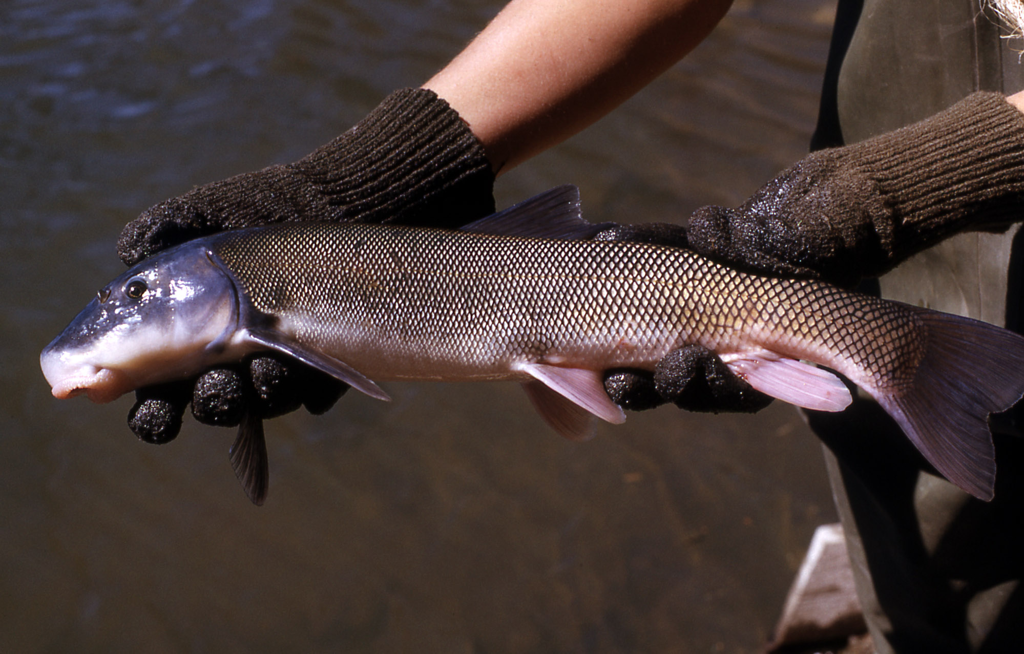 Mountain Sucker, Catostomus platyrhynchus from Pelican Creek, Yellowstone National Park, 1974